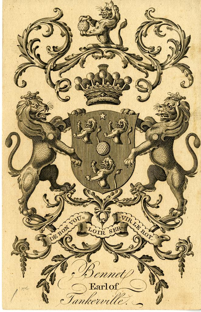 Armorial/Heraldic Bookplates. Subject: Coat of arms; Shields; Animals; Crowns. Subject - Family Name: Bennet.